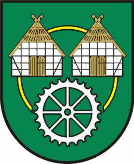 Coat of Arms of Hambühren First upload in de-wp: Eiskalt12 (12:48, 13. Sep. 2006)